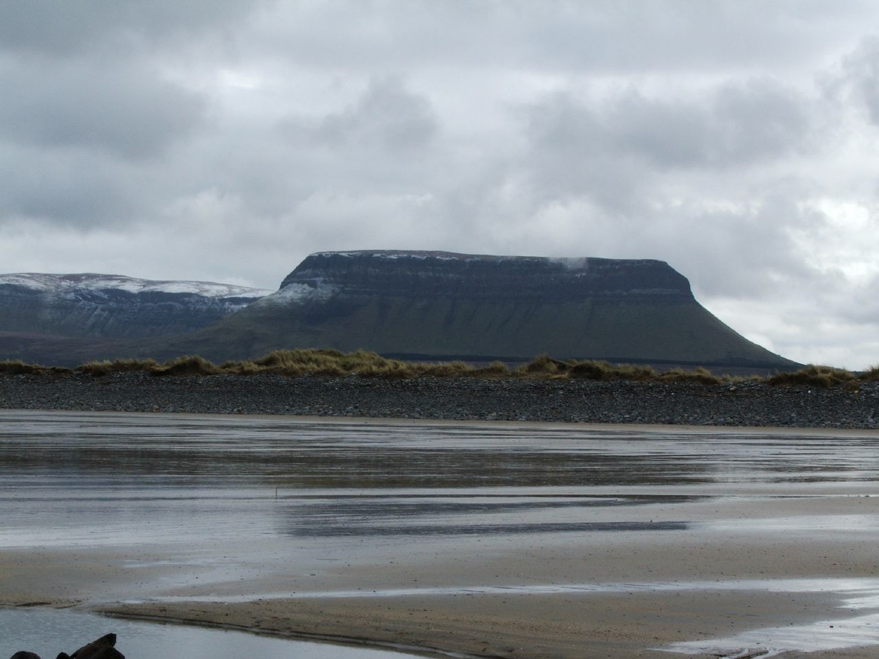 Benbulben mountain, seen from Streedagh Beach, Grange, County Sligo, Ireland